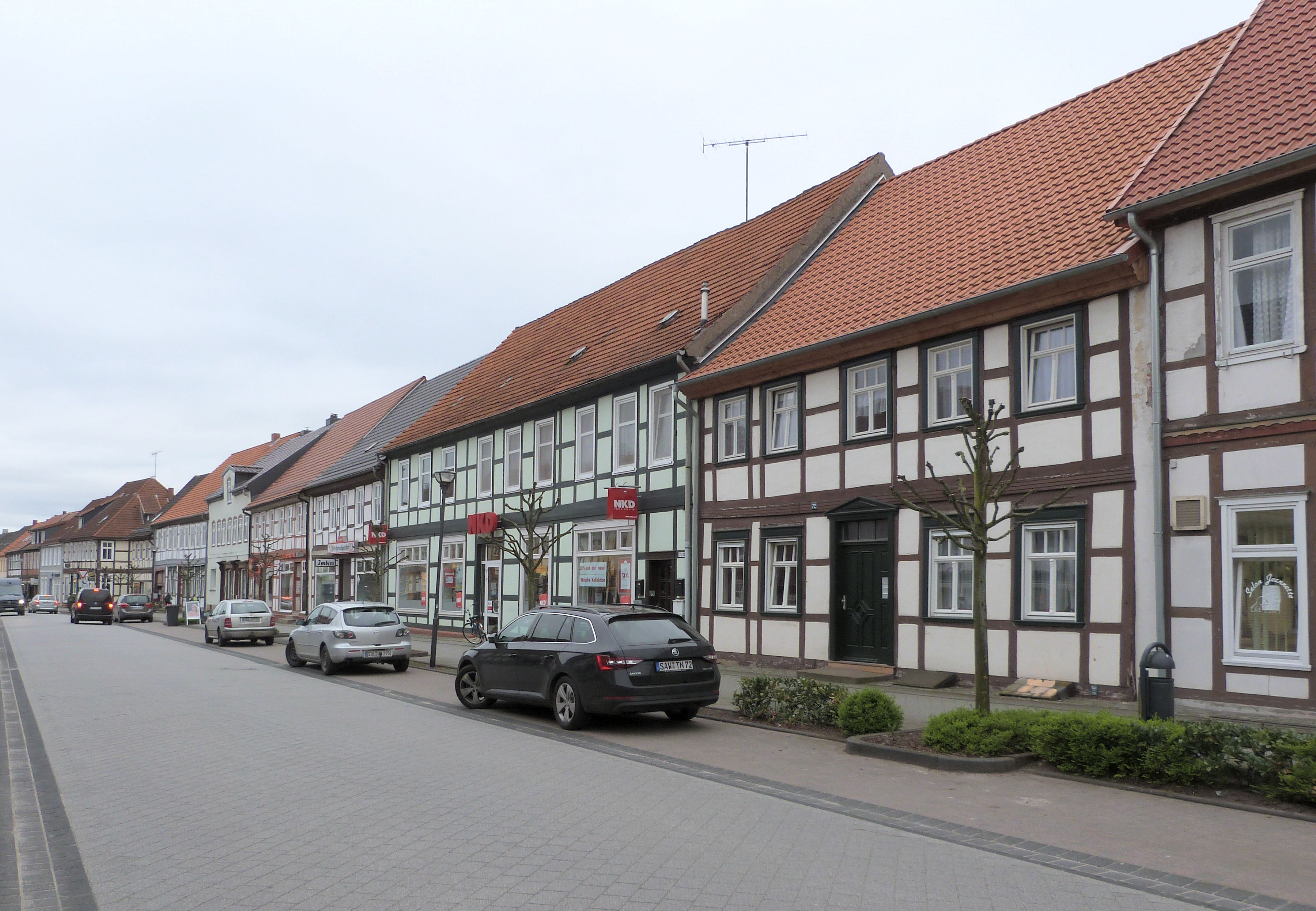 Street Friedensstraße in Arendsee Altmark